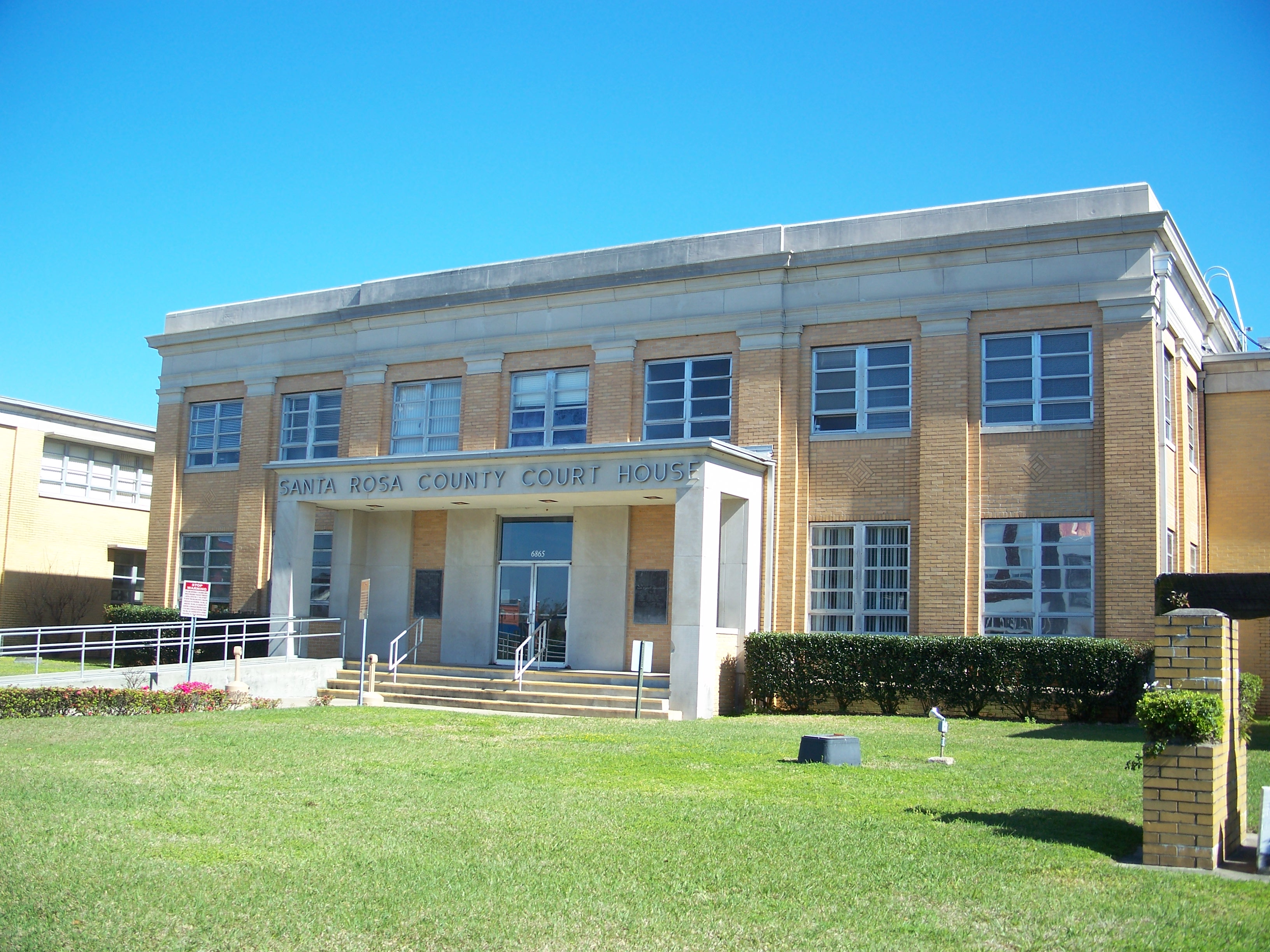 Milton, Florida: Santa Rosa County Courthouse.